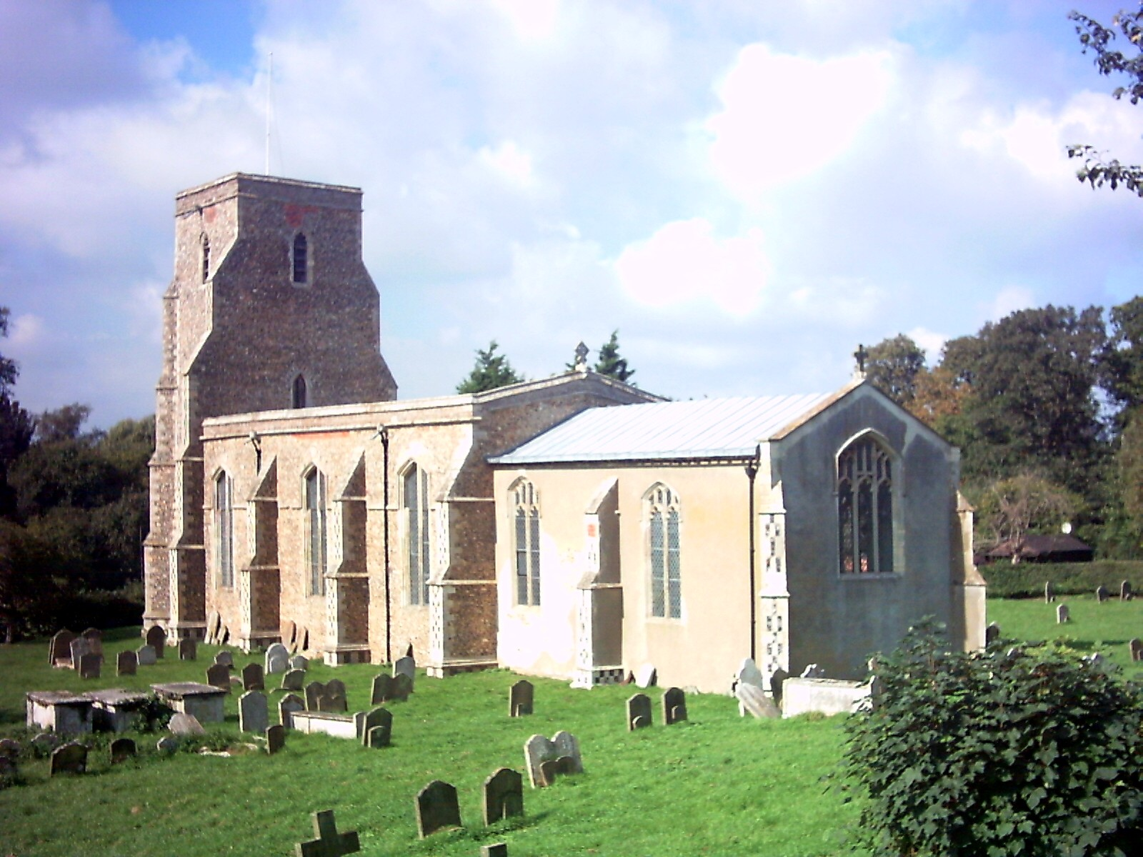 Church of St Mary in Parham, Suffolk, England. A Grade I listed medieval church.